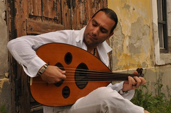 crazy oud